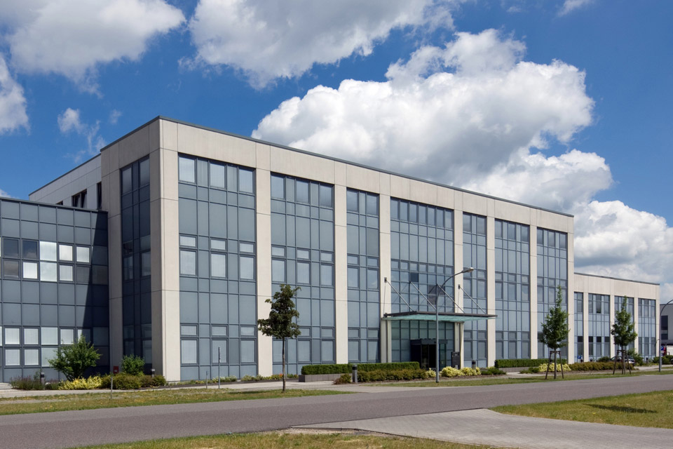 Fielmann factory for optical products in Rathenow (Brandenburg)